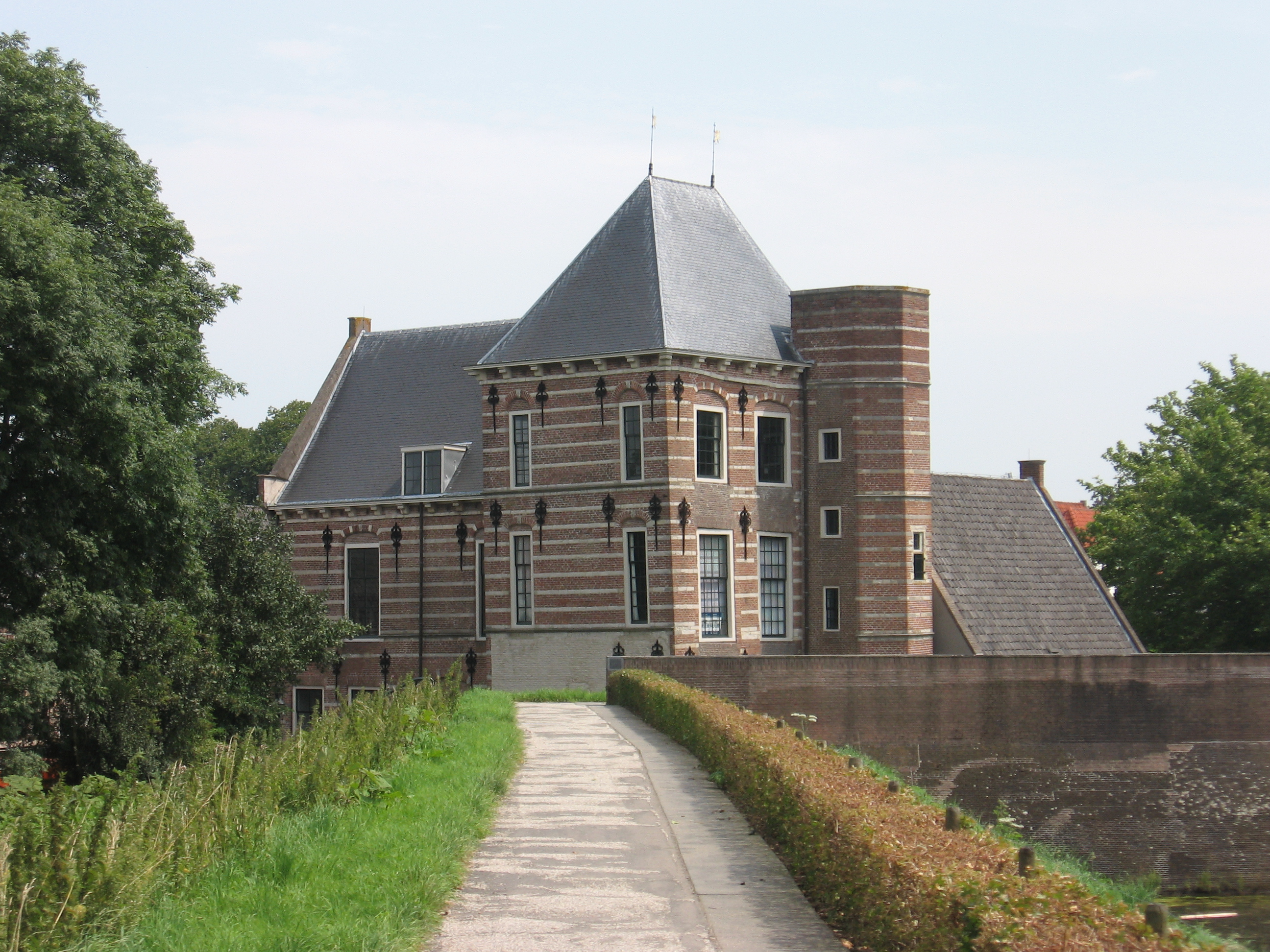 Gorinchem